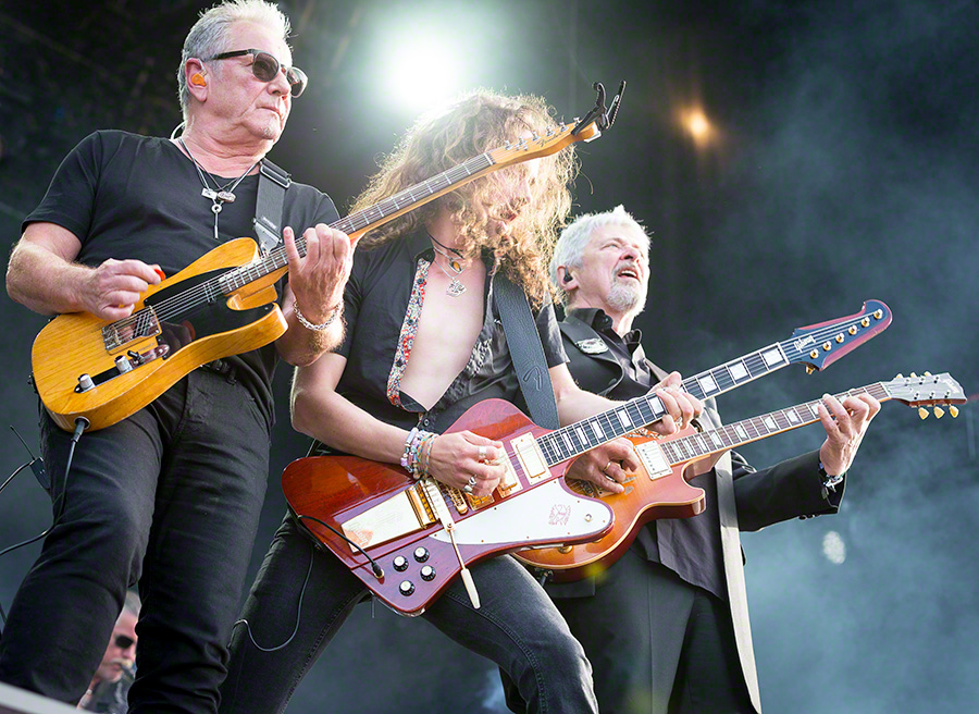 Åge Aleksandersen and Sambandet at the main stage during Stavernfestivalen in Stavern on 08. July 2016. Lineup:Åge Aleksandersen (guitar / vocal)Skjalg Raaen (guitar)Steinar Krokstad (drums)Morten Skaget (bass)Gunnar Pedersen (guitar)Terje Tranaas (keyboard)Bjørn Røstad (baritone saxophone)Unidentified (trumpet)Unidentified (trombone)Unidentified (tenor saxophone)